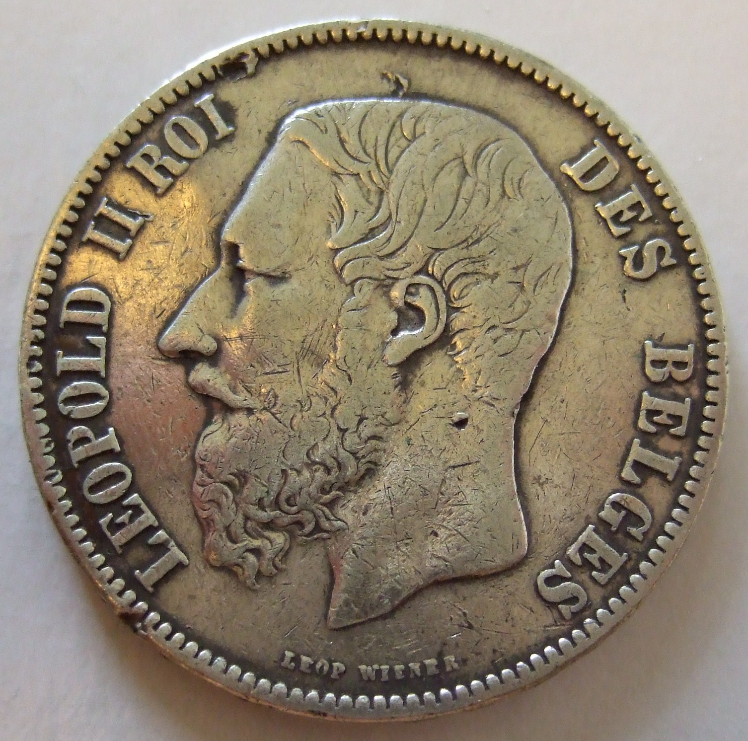 5 francs Belgie